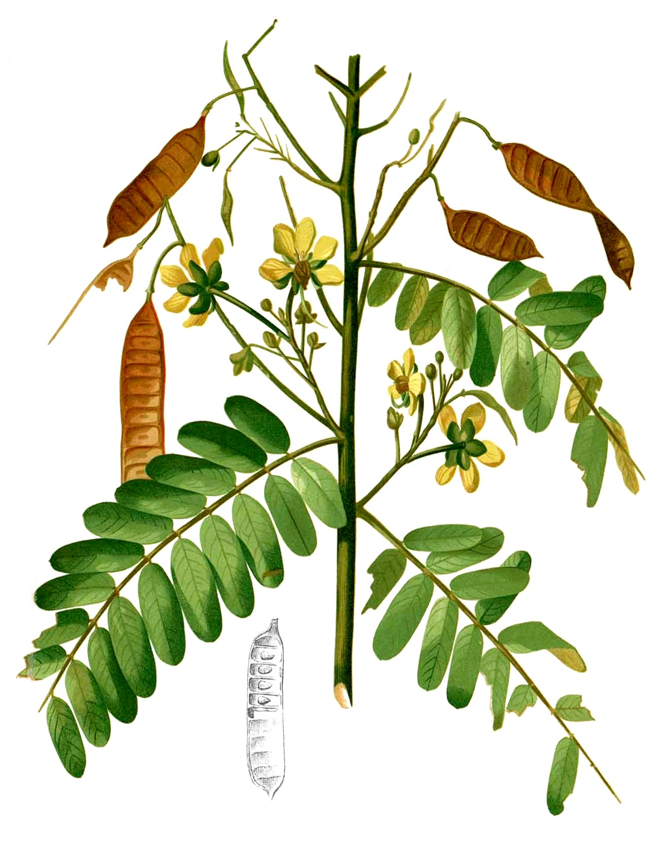 Plate from book